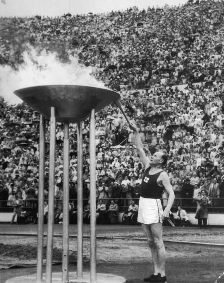 Paavo Nurmi lights the fire at the Olympic games in Helsinki 1952.